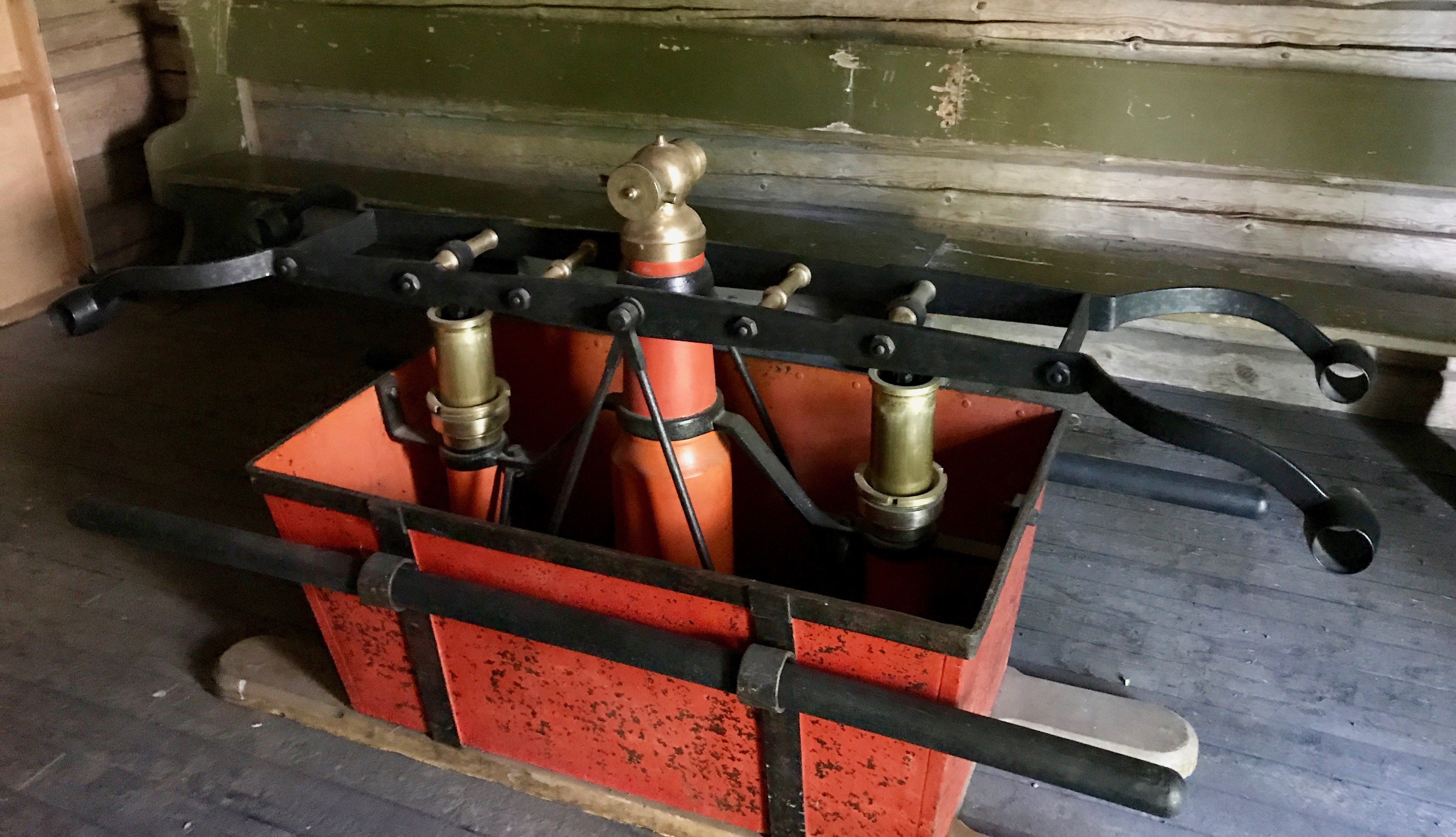 Hand-drawn fire engine